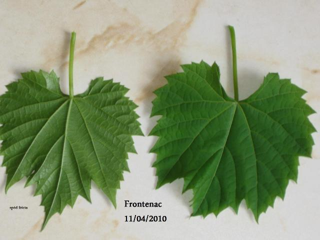 Leaves of Frontenac vine